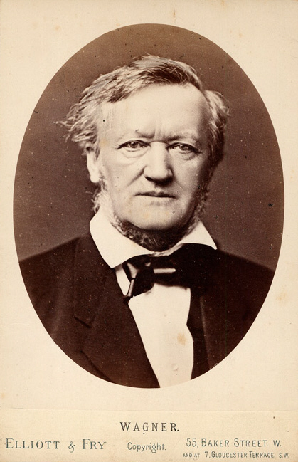 Portrait of Richard Wagner. Albumen print (oval). 13,5 x 9,5 cm.